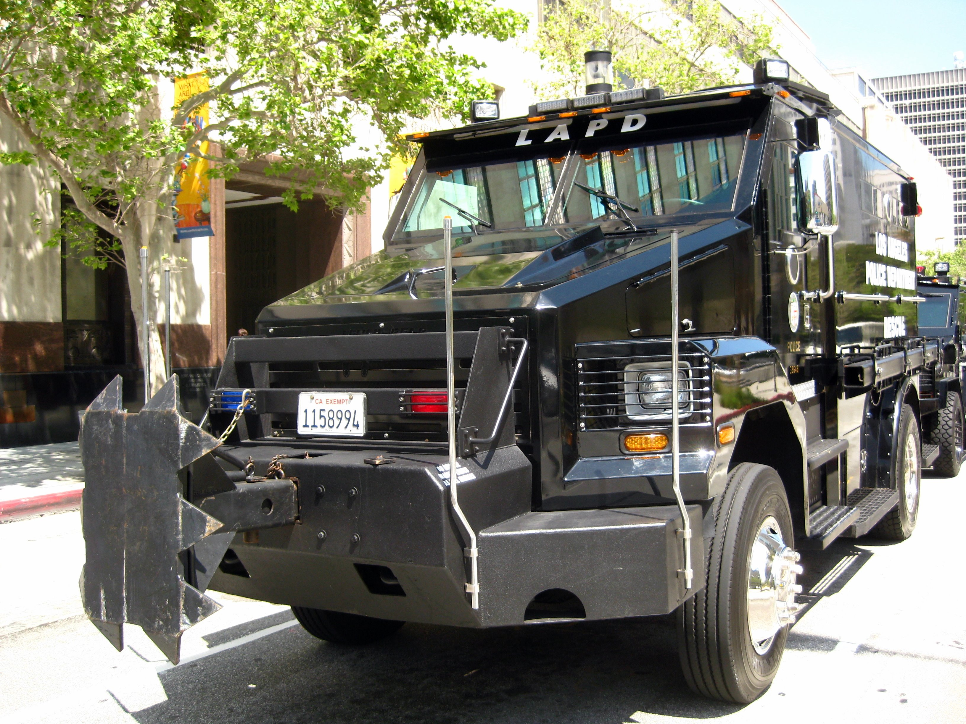 LAPD rescue vehicle with battering ram in the front